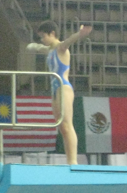 Third day of the 2013 FINA Diving World Series in Moscow. April 28, 2013.